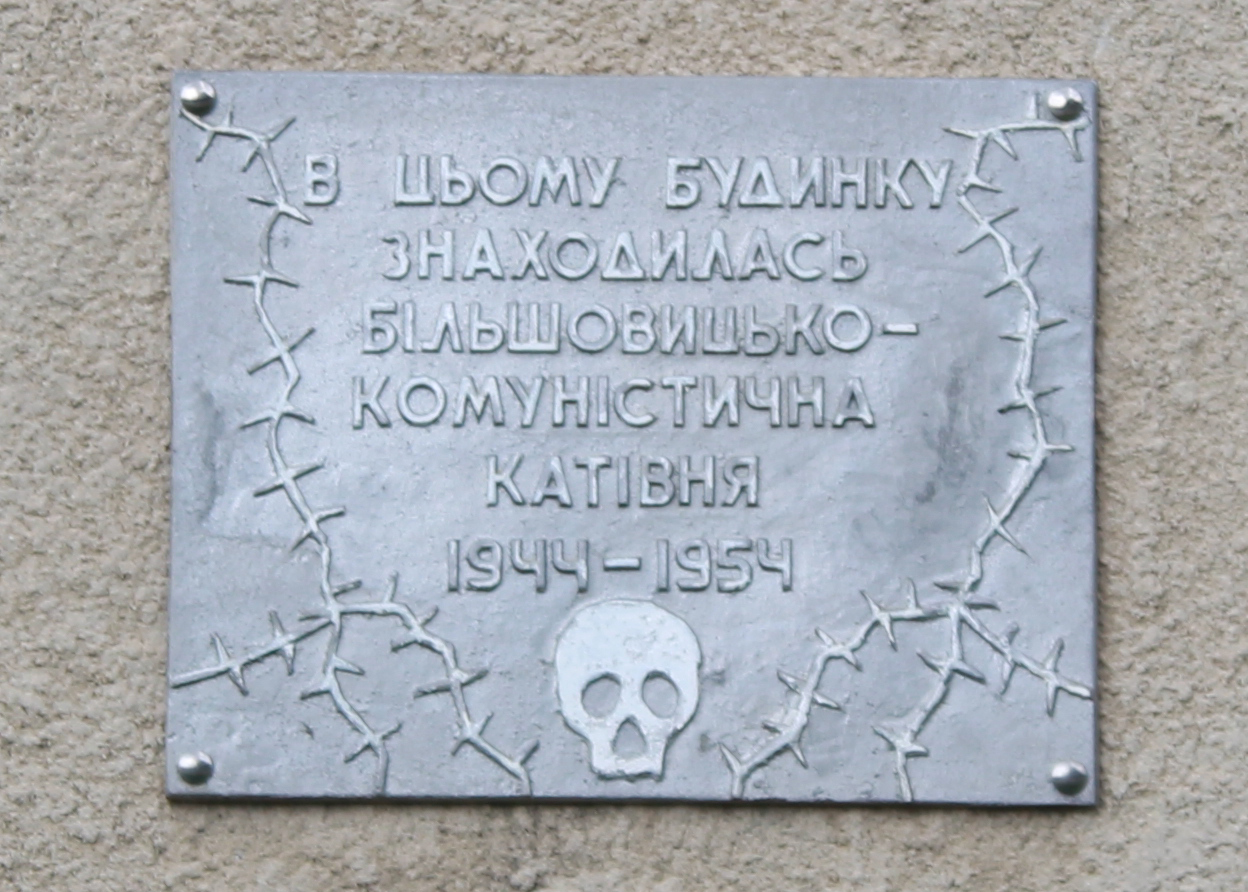 Будинок більшовицької катівні, Білобожниця